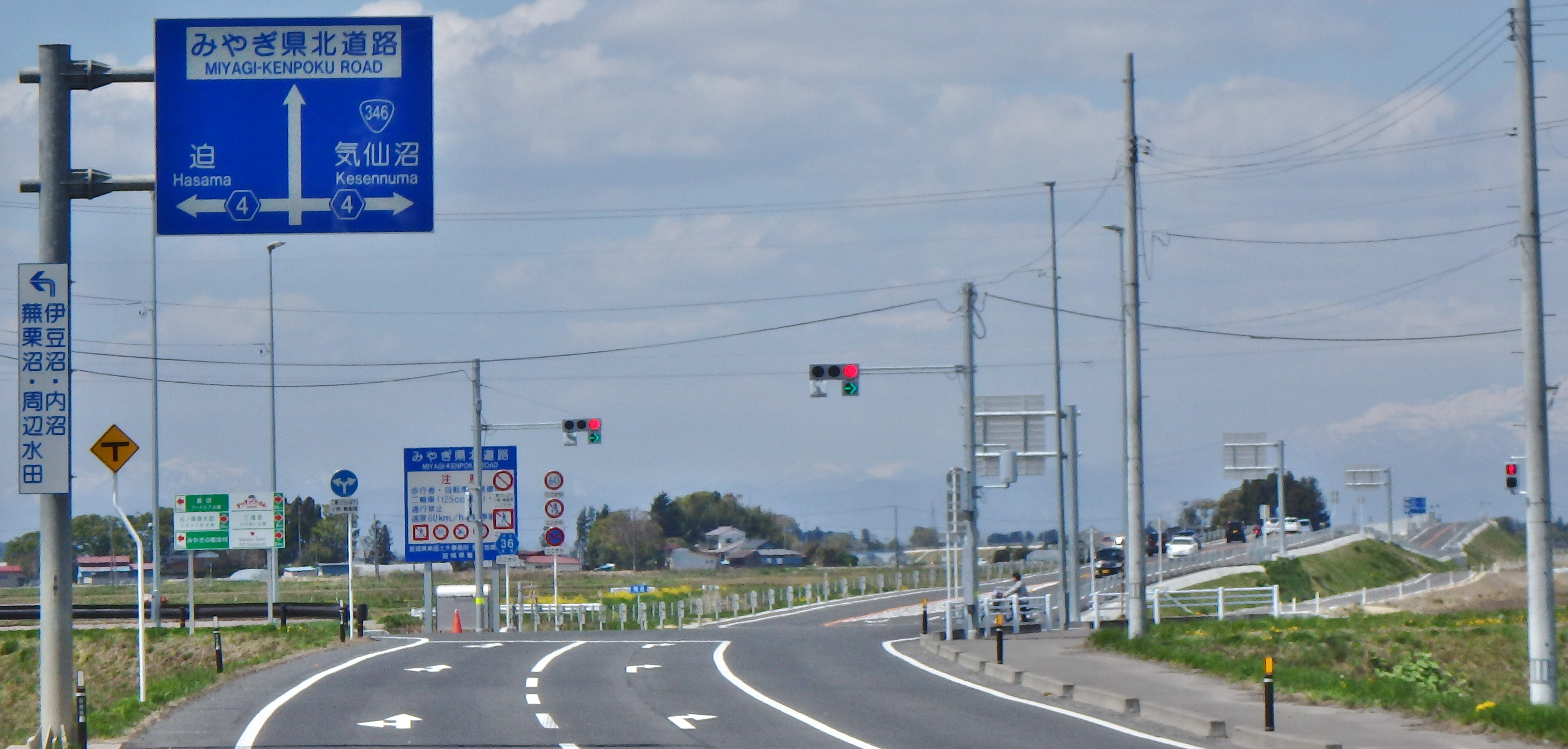 Miyagi Prefecture-north High-standard Highways, Miyagi Prefecture,Japan